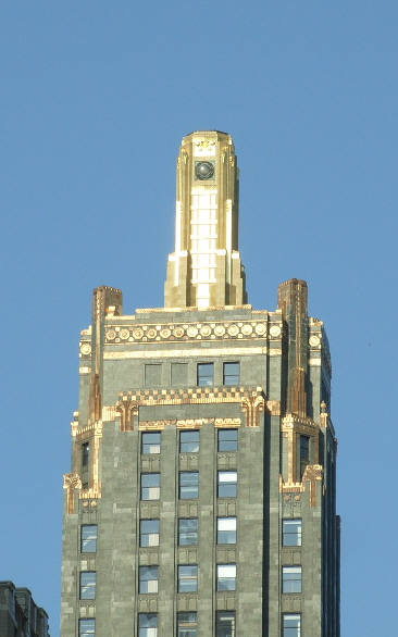 top half of Carbide and Carbon Building at 230 n. michigan; chicago